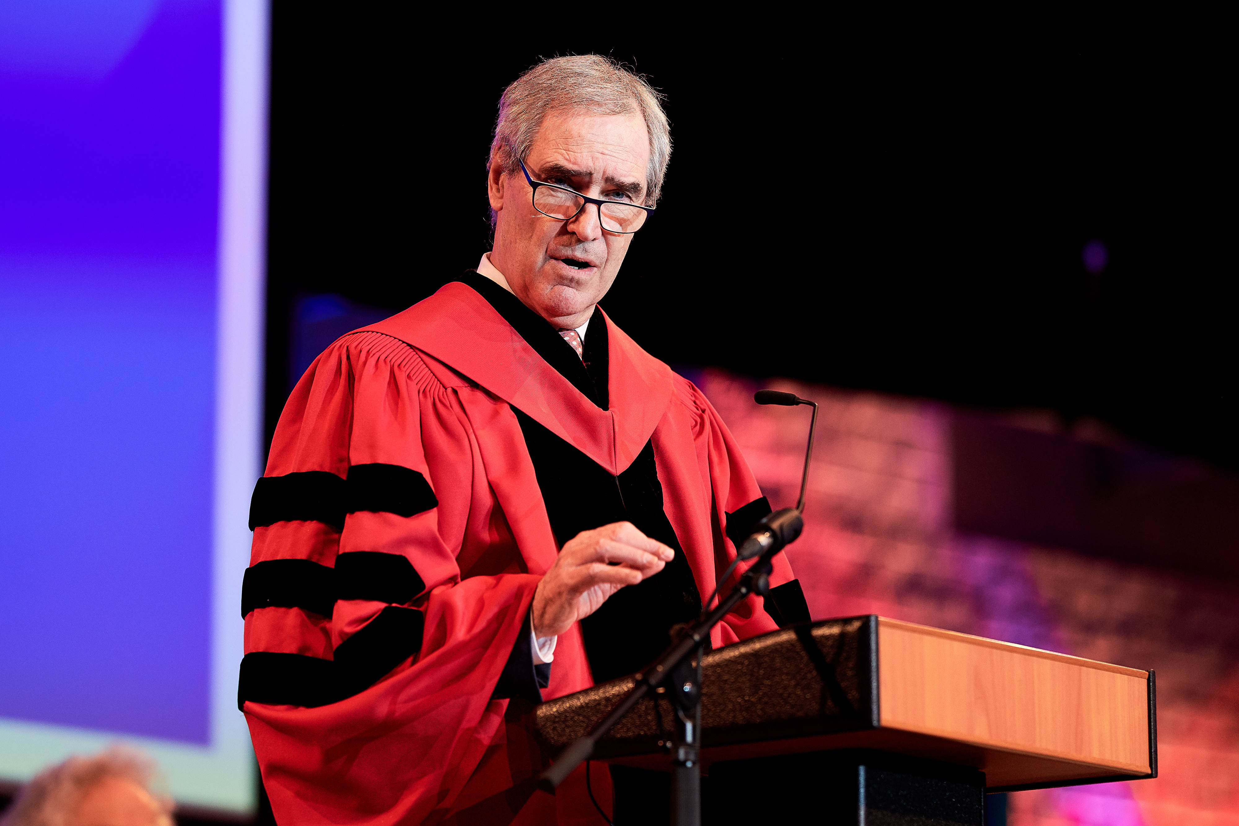 Michael Ignatieff, President and Rector of CEU making a speech at the Inauguration of the Central European University Vienna Campus on November 15, 2019 in Expedithalle, Vienna.